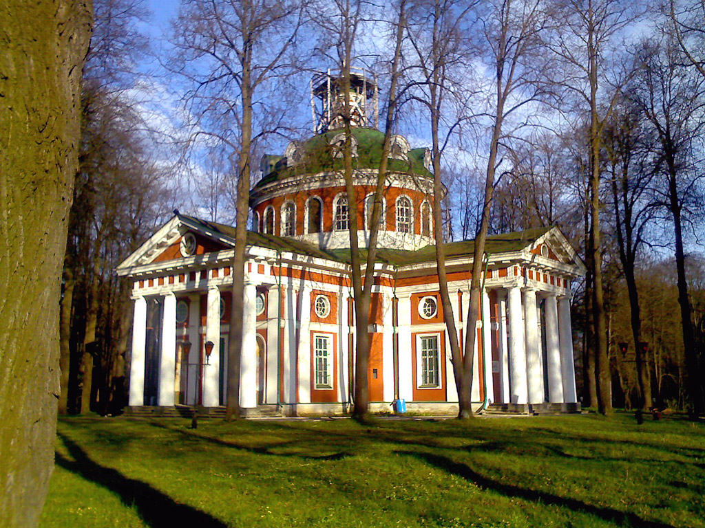 Grebnevo Estate